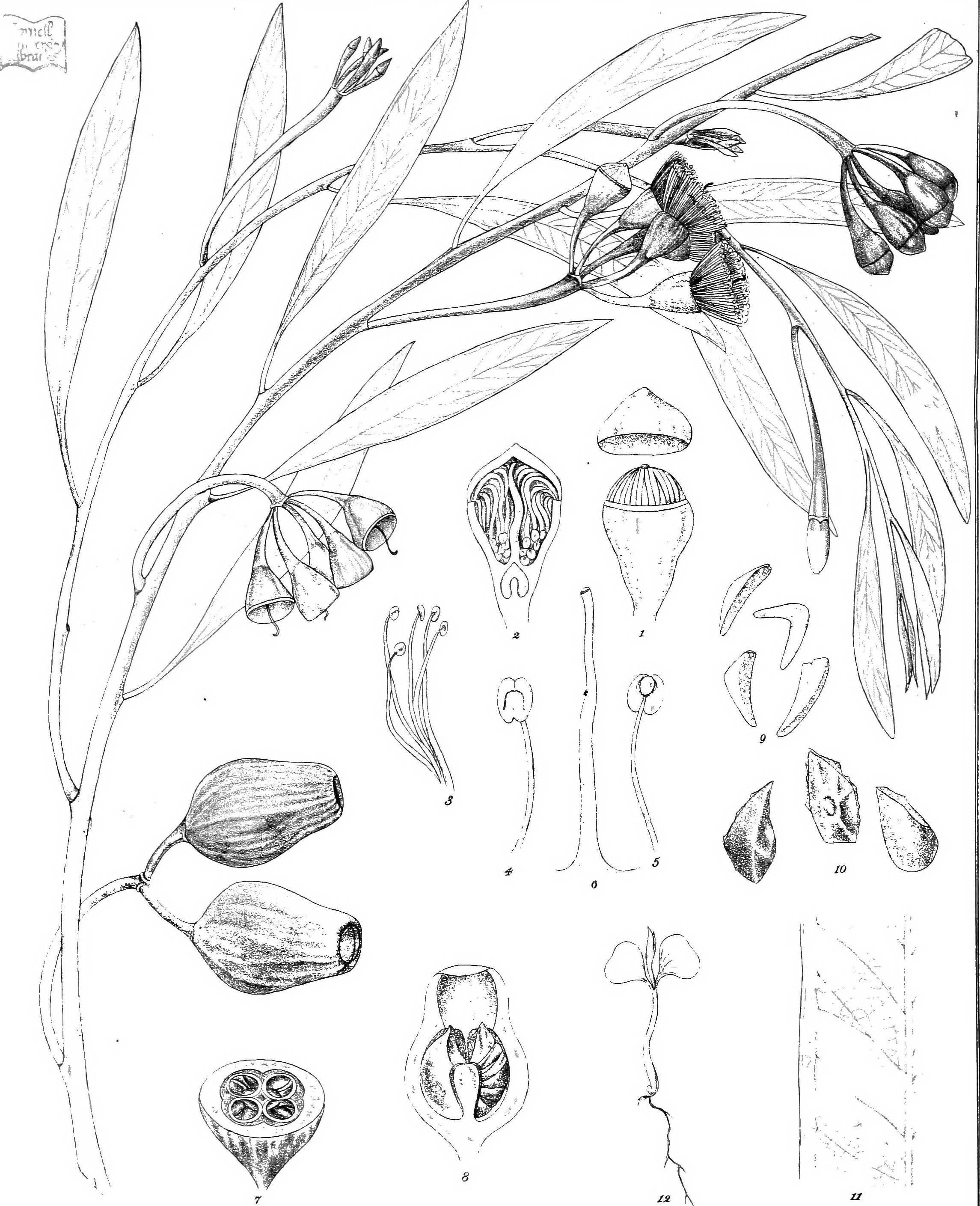 Title: Eucalyptographia. A descriptive atlas of the eucalypts of Australia and the adjoining islands; Year: 1879 (1870s) Authors: Mueller, Ferdinand von, 1825-1896 Subjects: Eucalyptus; Botany Publisher: Melbourne, J. Ferres, Govt. Print; (etc. ,etc. ) Text Appearing Before Image: ' Text Appearing After Image: Eucalyptus sepulcralis F.v M. EXPLANATION of ANALYTIC DETAILS.-1, unexpanded flower, the lid lifted; 2, longitudinal section of an unexpanded flower; 3, some stamens in expanded position ; 4 and 5, front- and back-view of an anther with part of its filament; 6, style and stigma; 7 and 8, transverse and longitudinal section of a. fruit; 9 and 10, sterile and fertile seeds ; 11, portion of a leaf ; 12, young seedlings with cotyledonar leaves ;-1-11, magnified, but to various extent; 12, natural size.~:"::ie. :.7.-.edel«LC°Litt r"vM dnejct Sleam Lilho Gov Prinbng Office Meft ll(glll;)pte g(i)pll®llls FirM